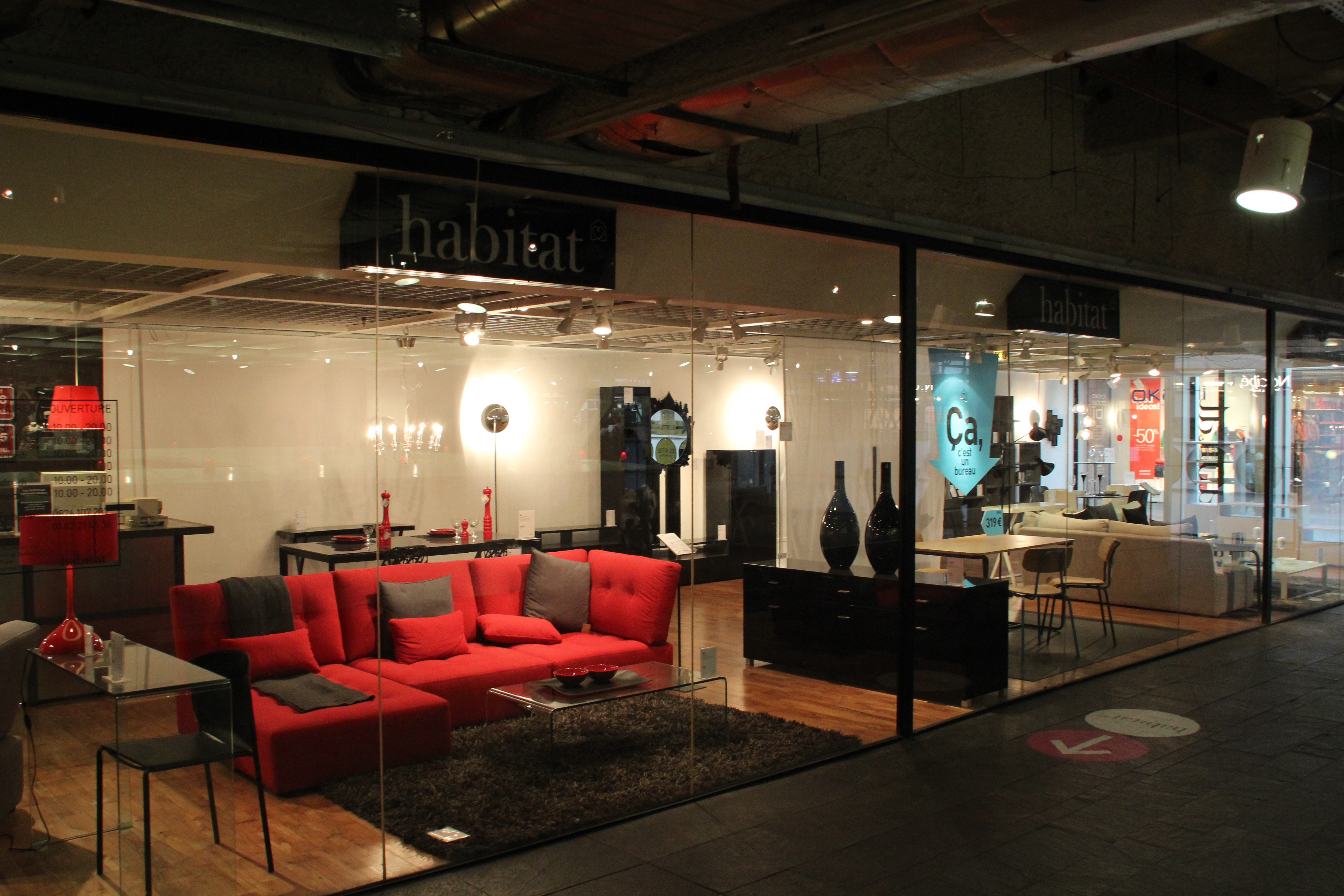 Forum des Halles shopping center in Paris, France.